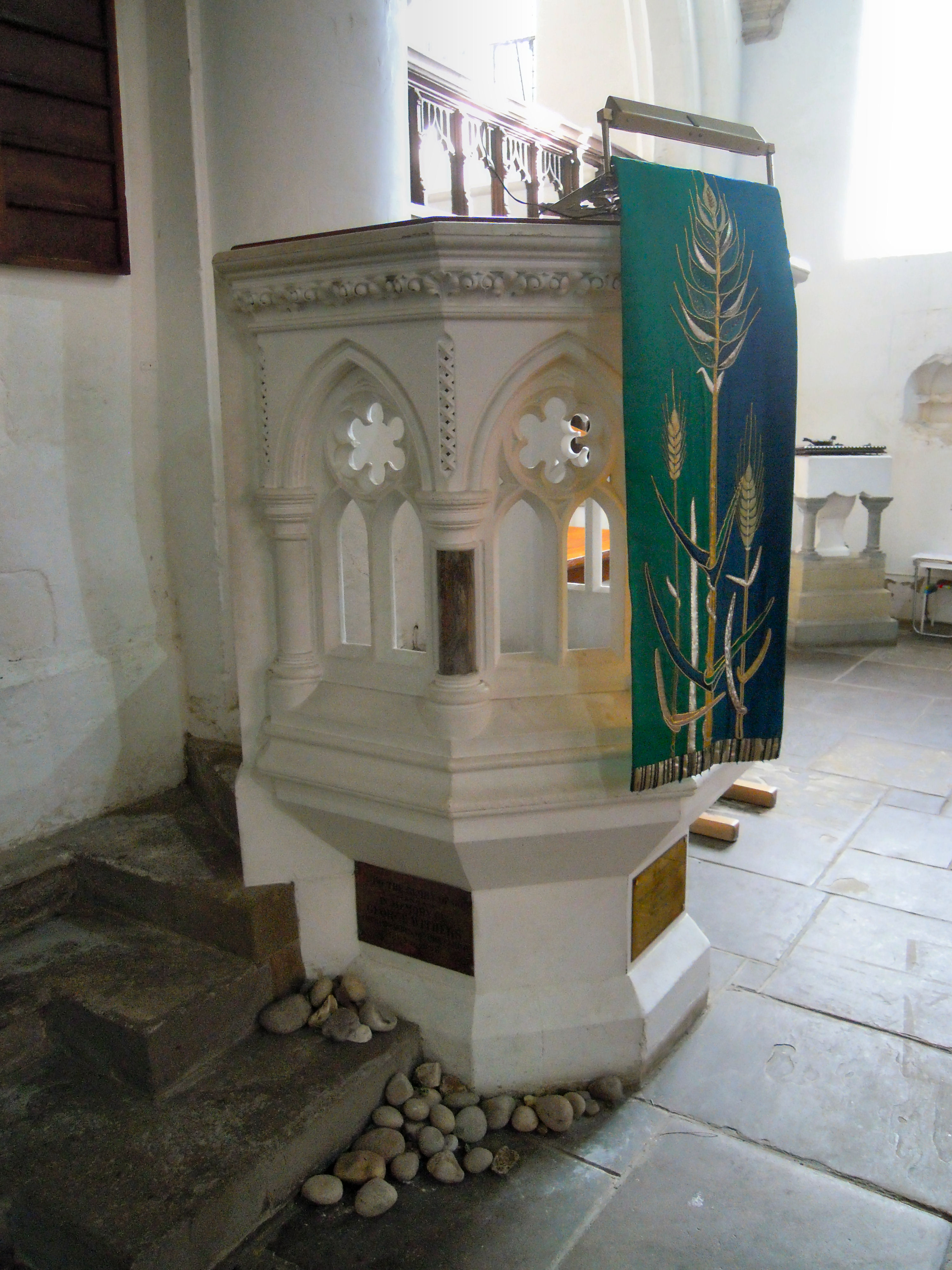 The pulpit in St Mary's Church in Guildford